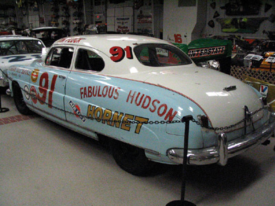 NASCAR champion Tim Flock #91 Fabulous Hudson Hornet in a museum.